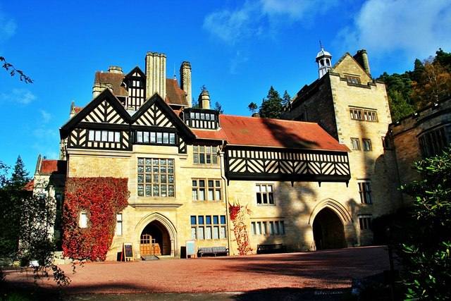 Visitors Entrance Cragside